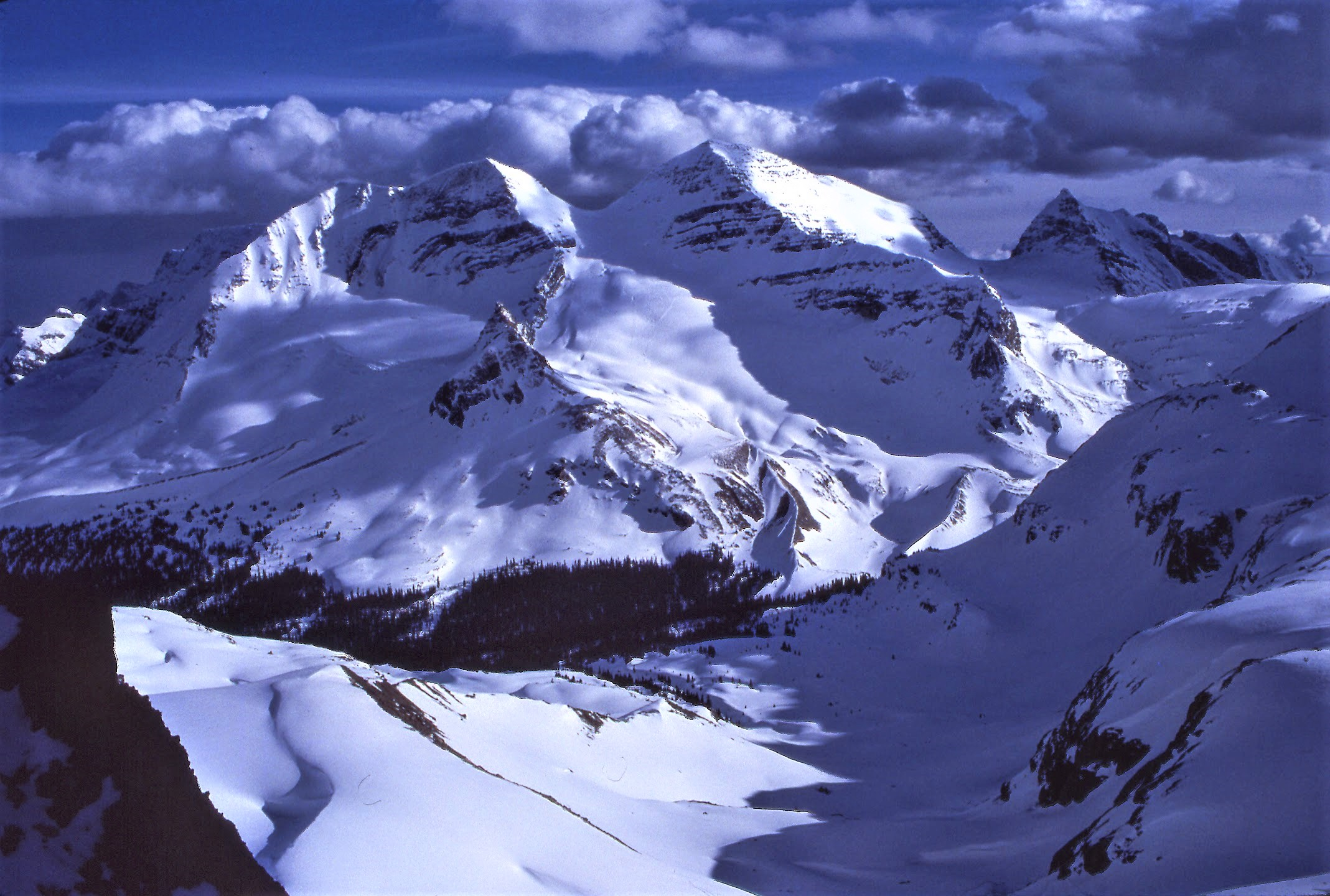 The Vice President & President (l-r) from Isolated col for the skiout to the Stanley Mitchell hut on the Wapta E/W traverse.